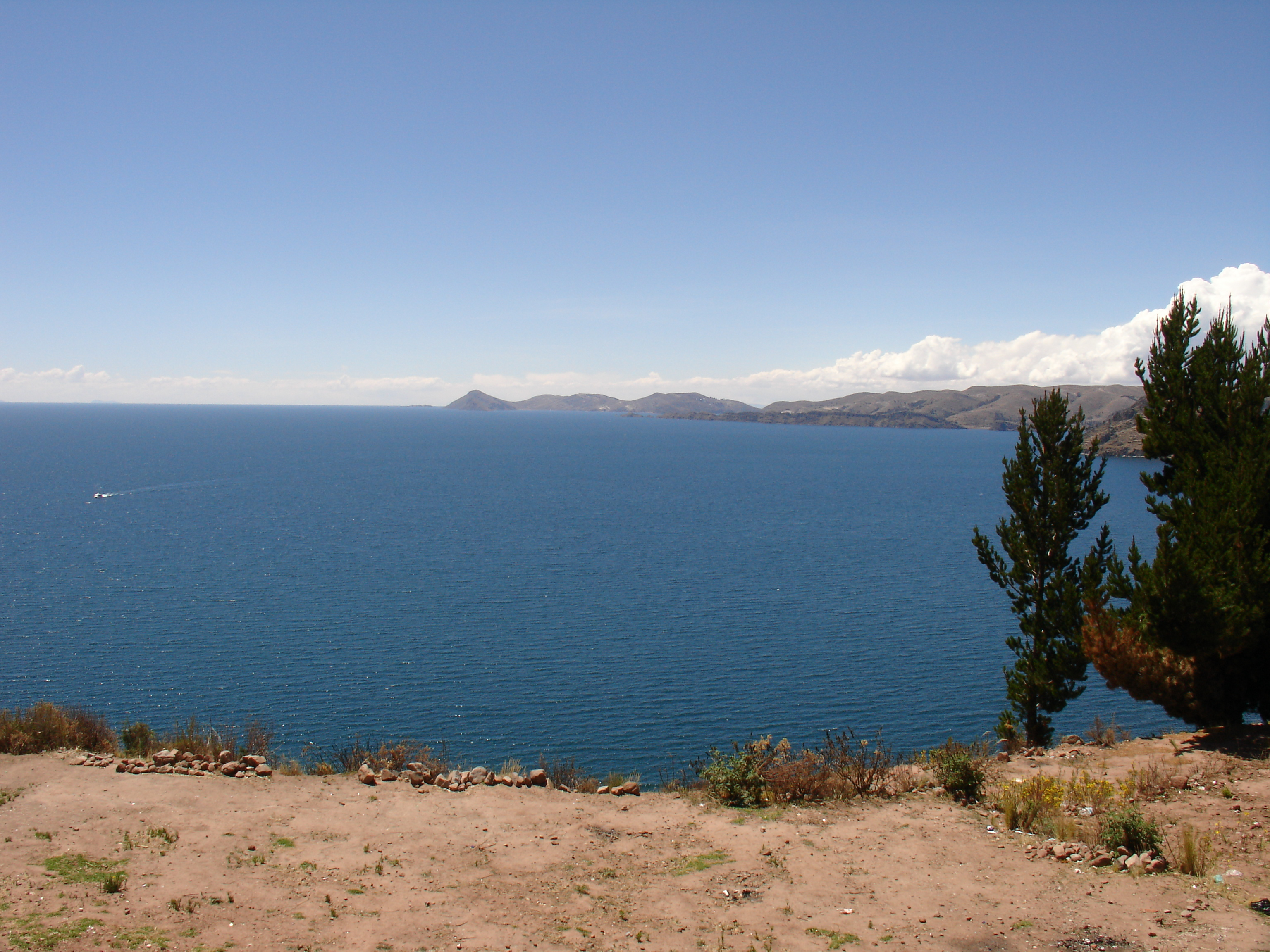 Lake Titicaca, Bolivia.